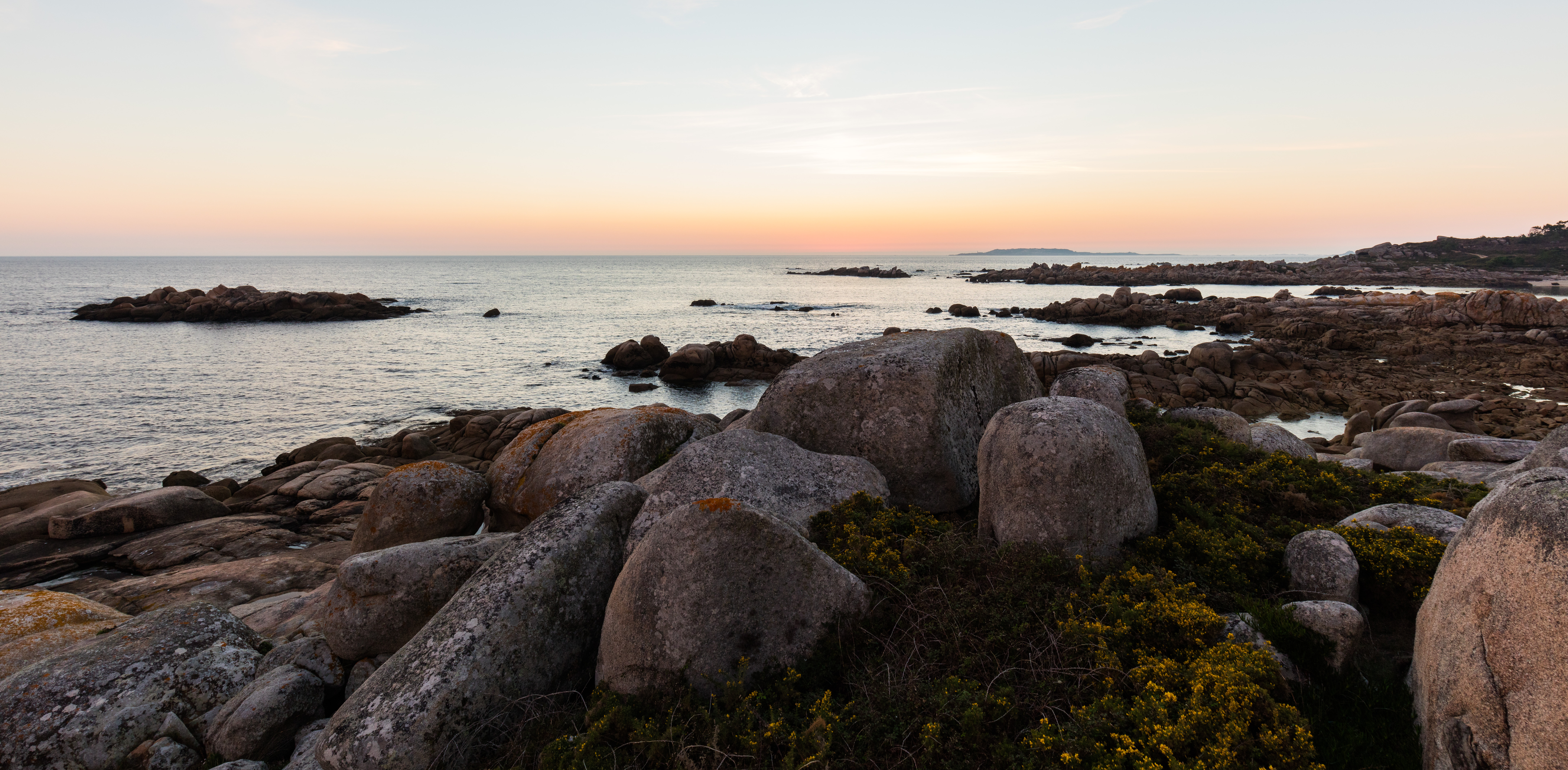 Coast of St Vicente, El Grove, Pontevedra, Spain